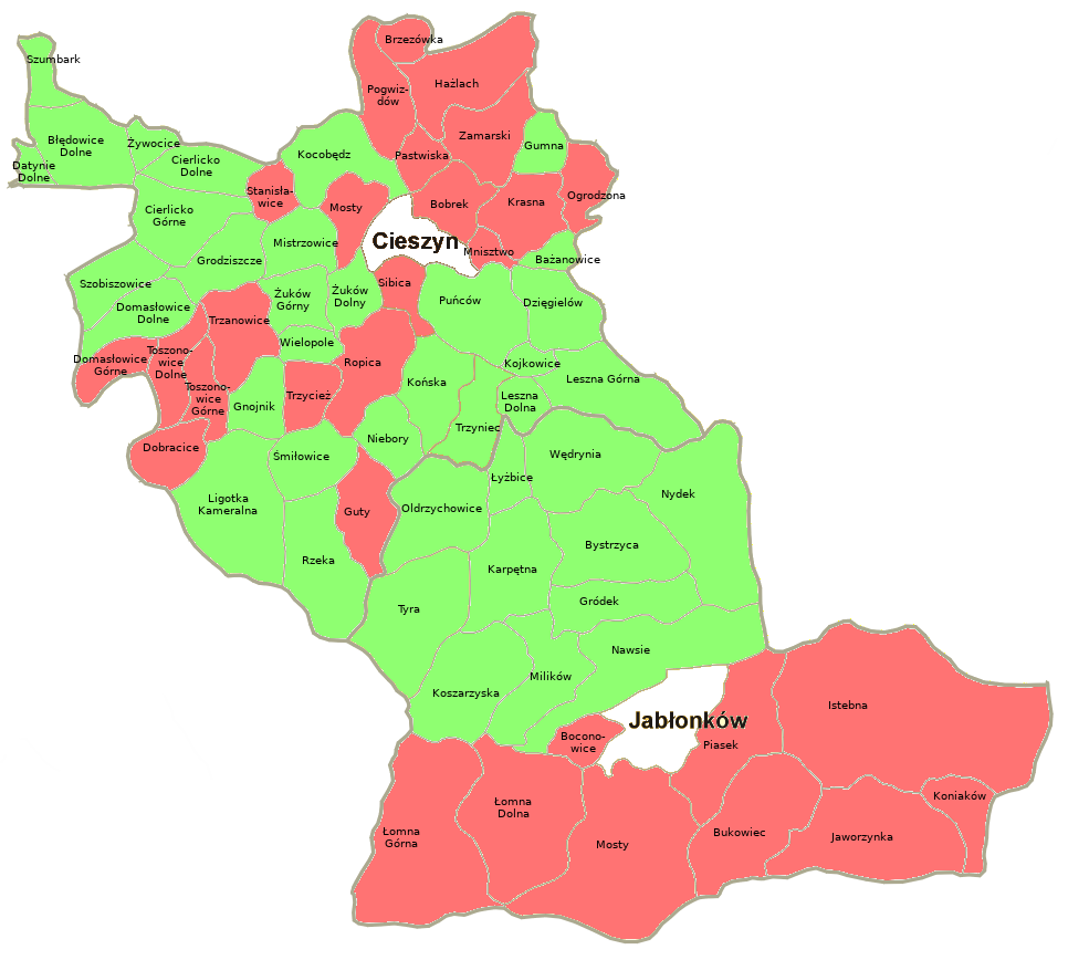 Austria-Hungary 1907 elections results, Walhbezirk 13, round 2